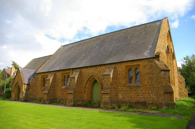 Chapel of ease The Victorian chapel at Northend was built to save the hamlet's inhabitants a long trudge up the hill to their ancient parish church at Burton Dassett. For a vintage photo from the 1930s